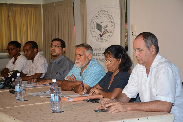 Press conference of the Seychelles Electoral Commission dedicated to the announcement of the dates of the upcoming presidential polls.